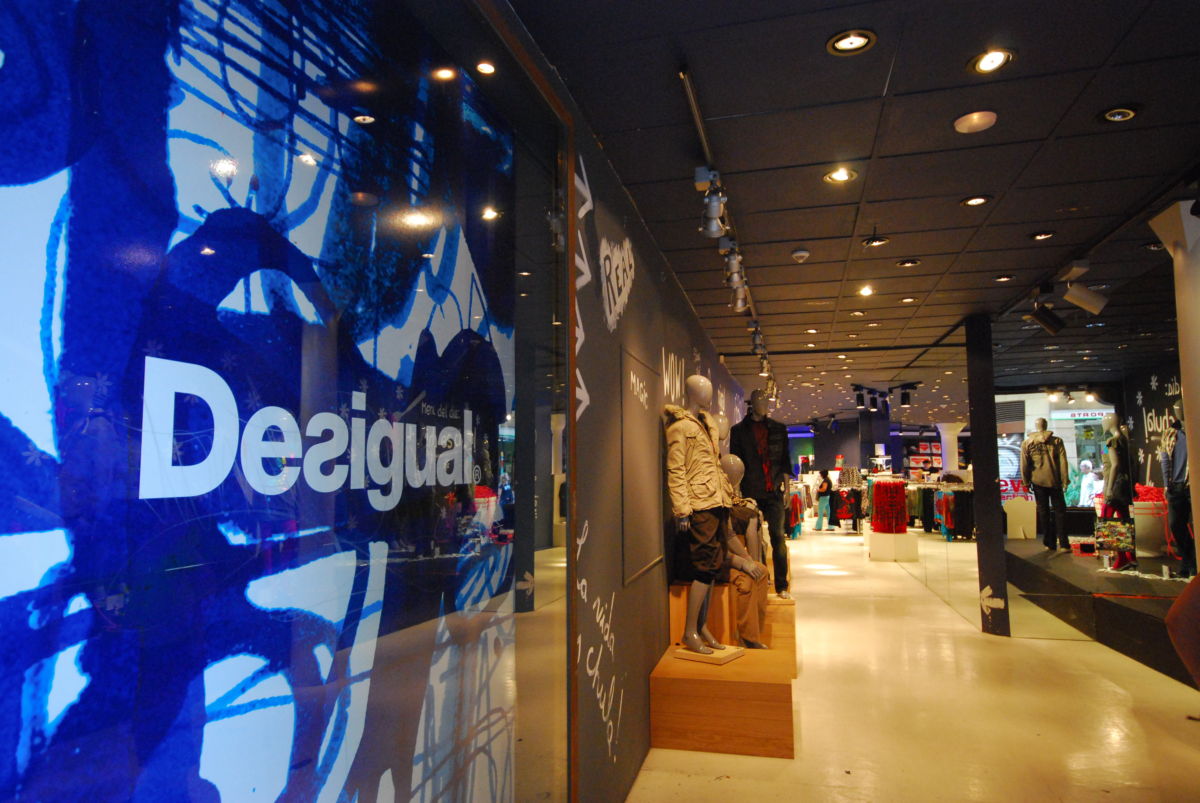 Desigual shop, in Barcelona